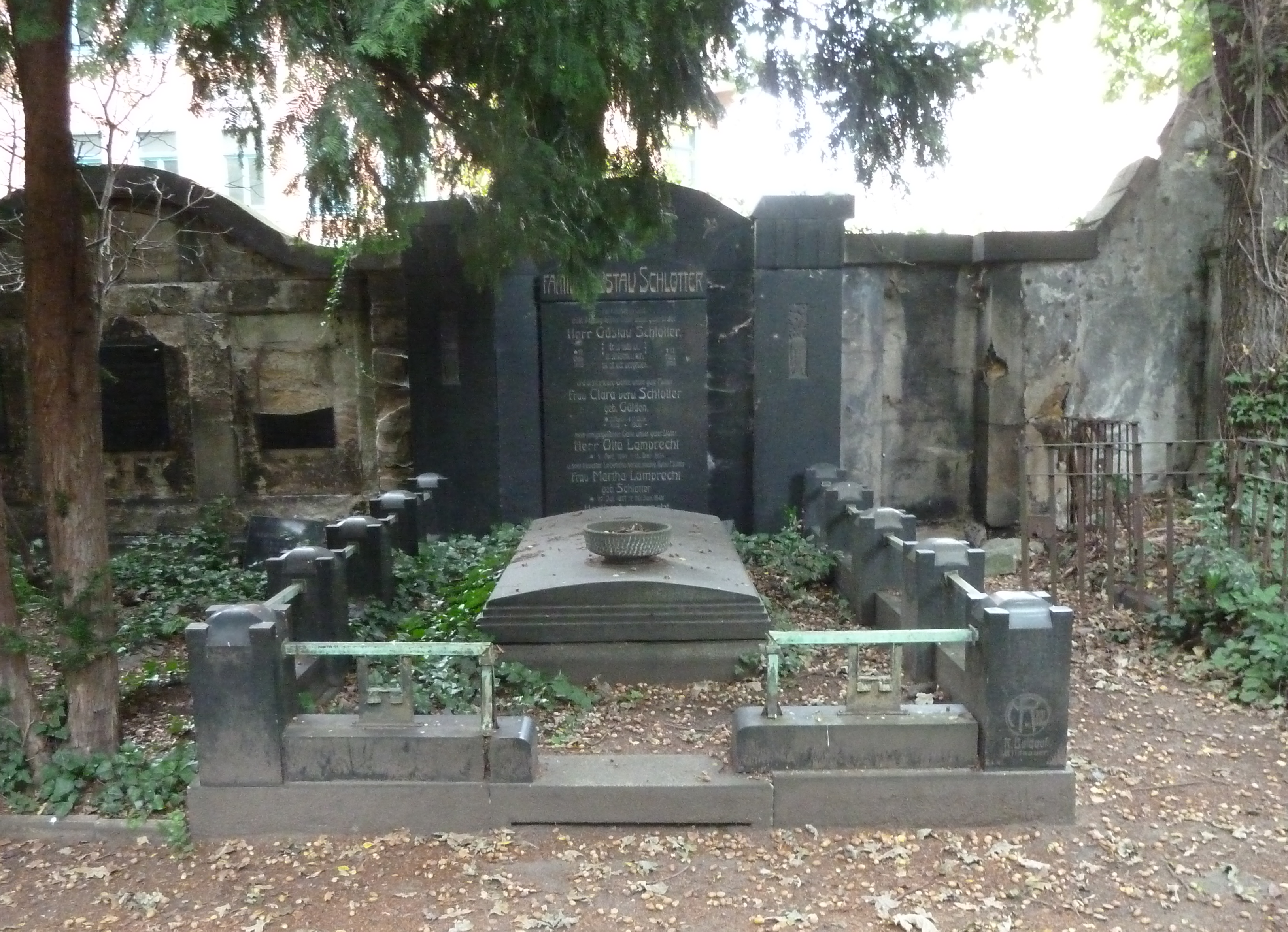 Grave I/18 at Inneren Neustädter Friedhof (inner cementry of Neustadt) in Dresden; it’s the grave of family Schlotter, Friedrich Küchenmeister (1821–1890) was also burried here.